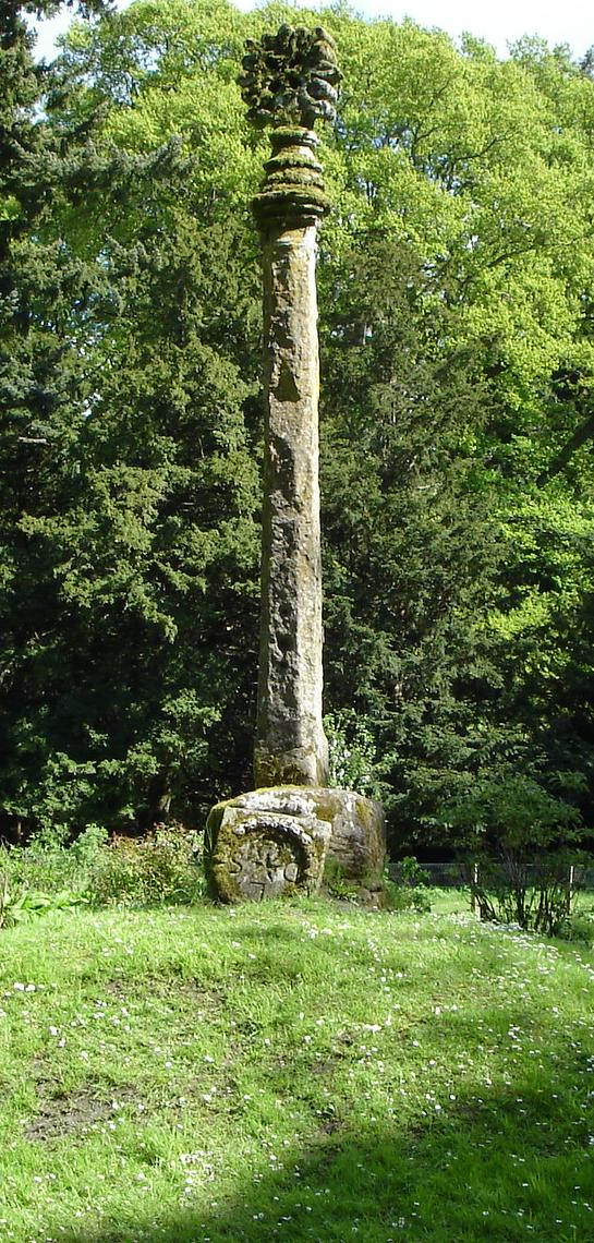 Scone mercat cross; uploader's own photograph.